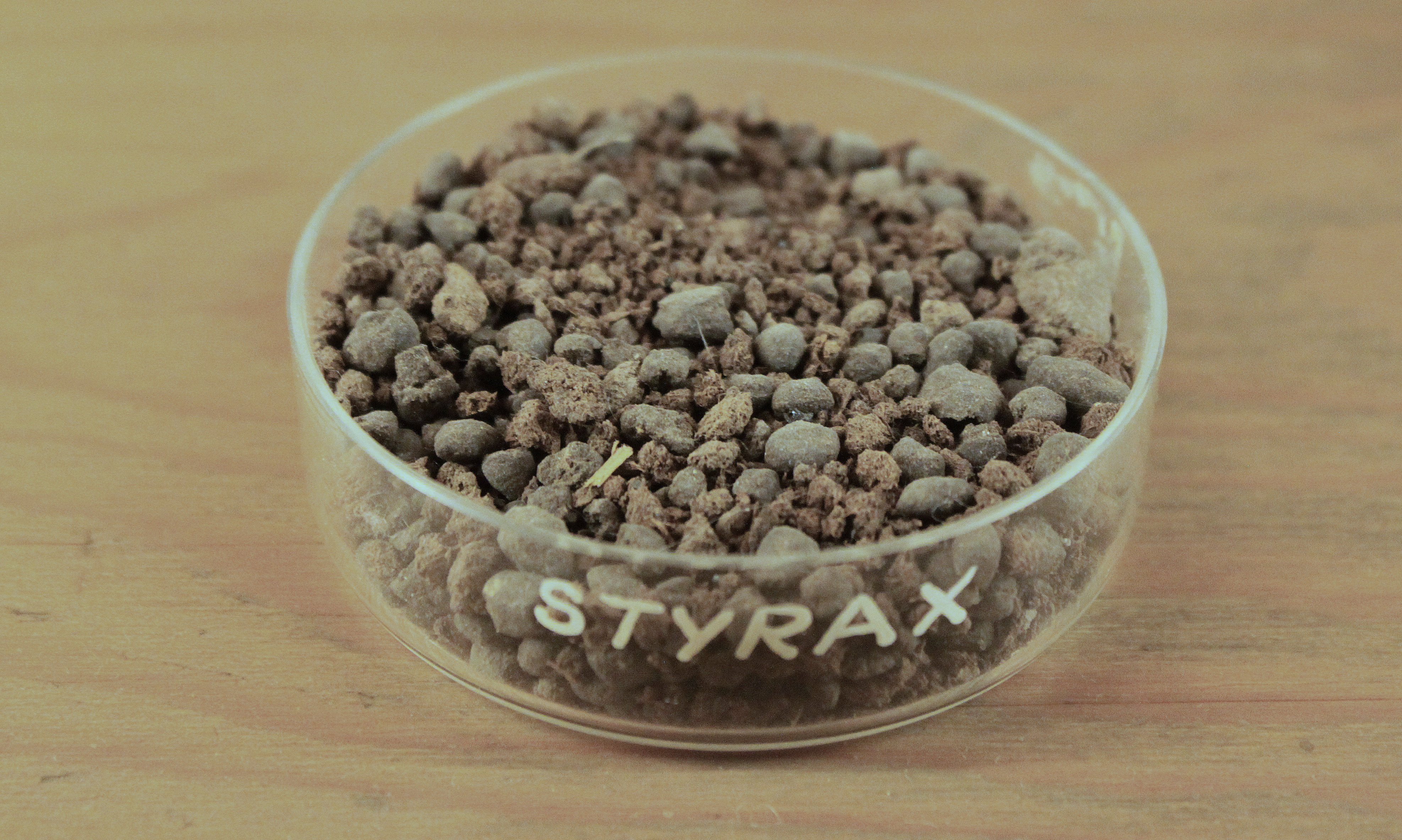 A dish of styrax balsam. Exhibition piece of the German Pharmacy Museum in Heidelberg, Germany.